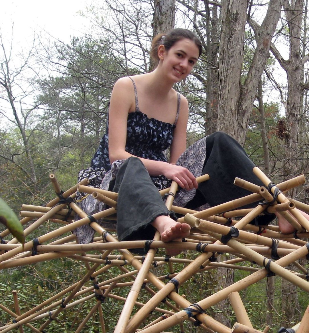 Vi Hart in 2012, sitting on one of Hart's mathematical creations